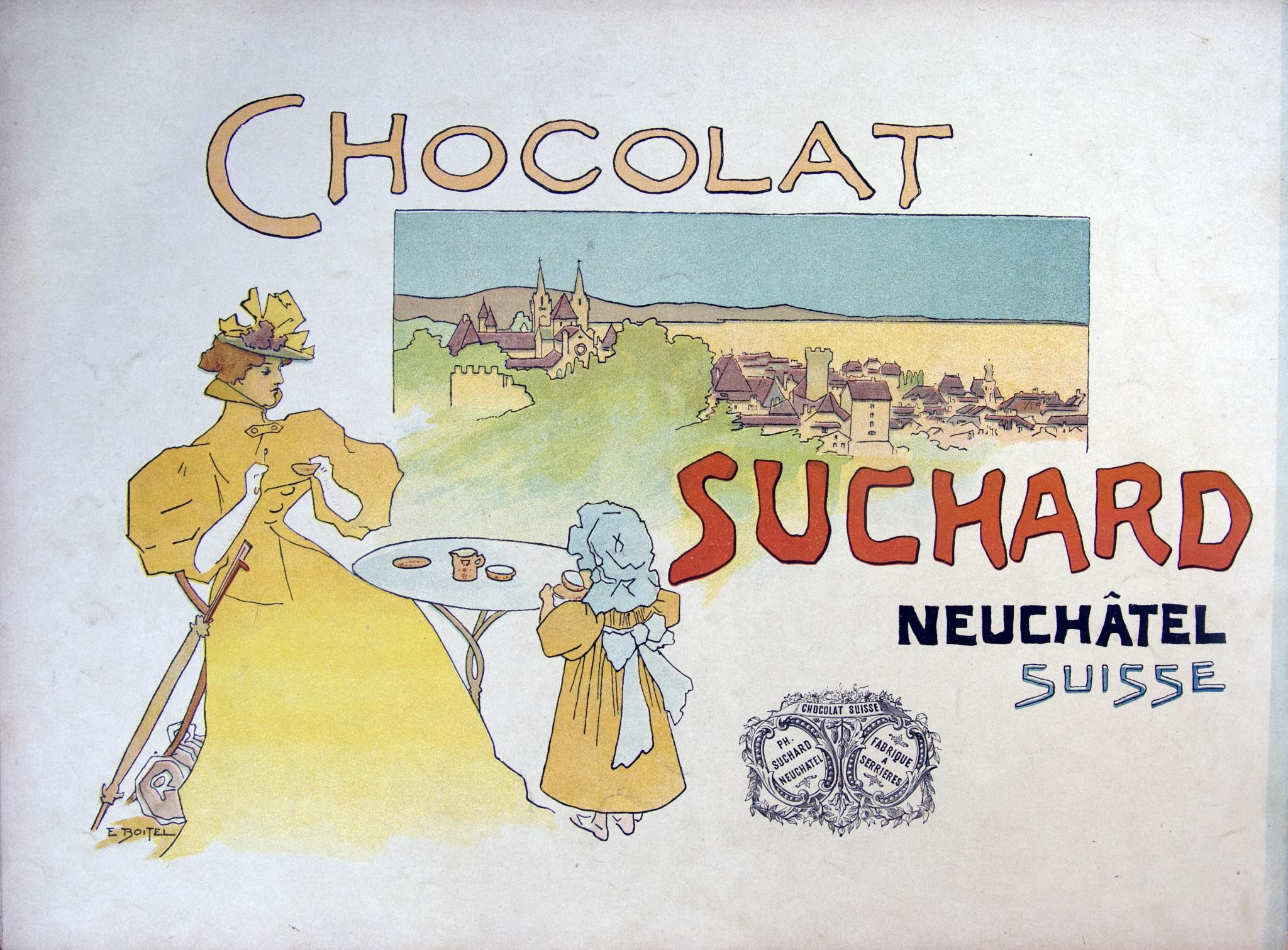 Chocolat Suchard advertising. Source: Comptoir de phototypie, Neuchâtel (ed.), Meine Reise durch die Schweiz. no date (probably 1897). Imprimerie des Châtelles, Raon-l'Étape.